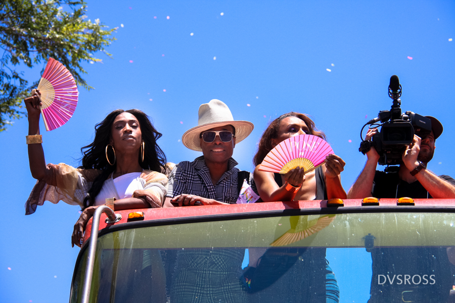 Stars from the show "Pose" at Los Angeles Pride Parade